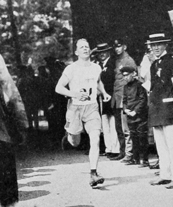 Gösta Åsbrink, cross-country race, modern pentathlon at the 1912 Olympics